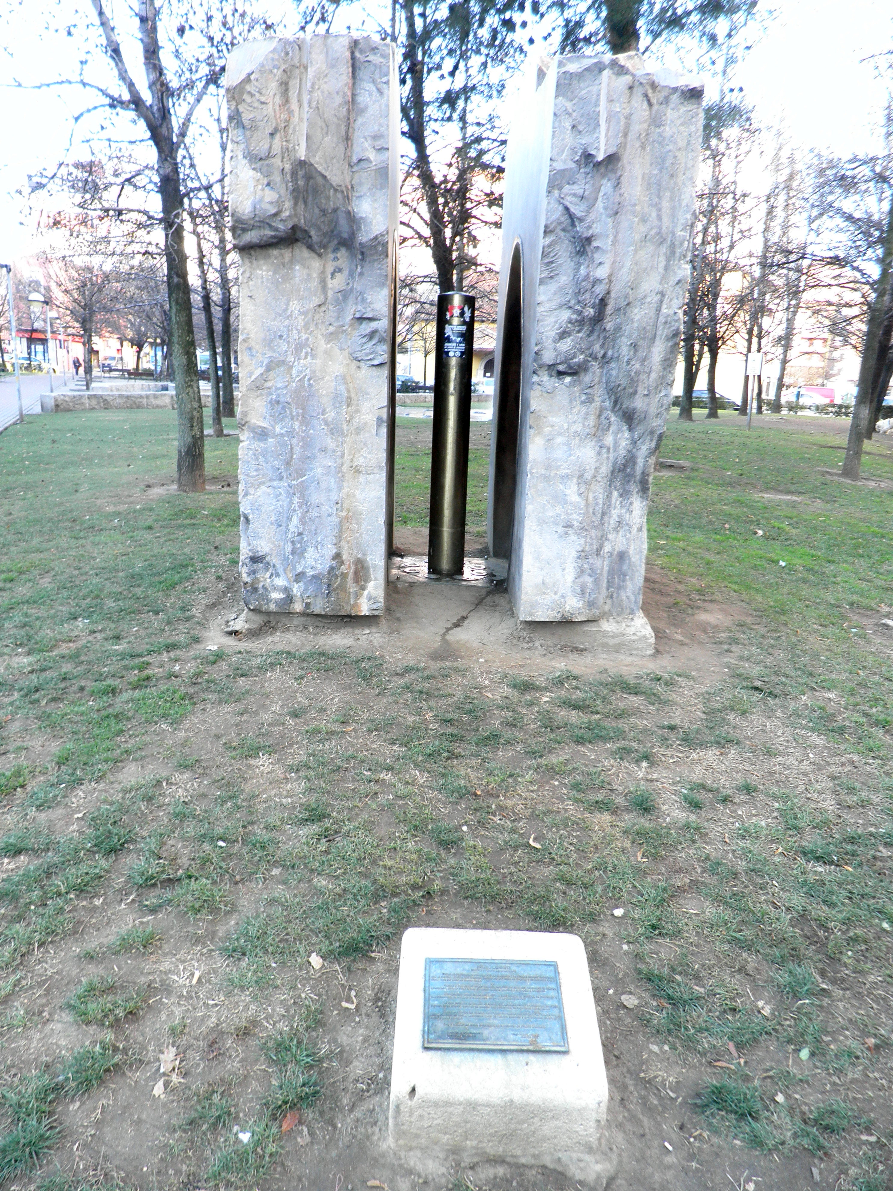 "Hálito Durruti", monument to Buenaventura Durruti in León